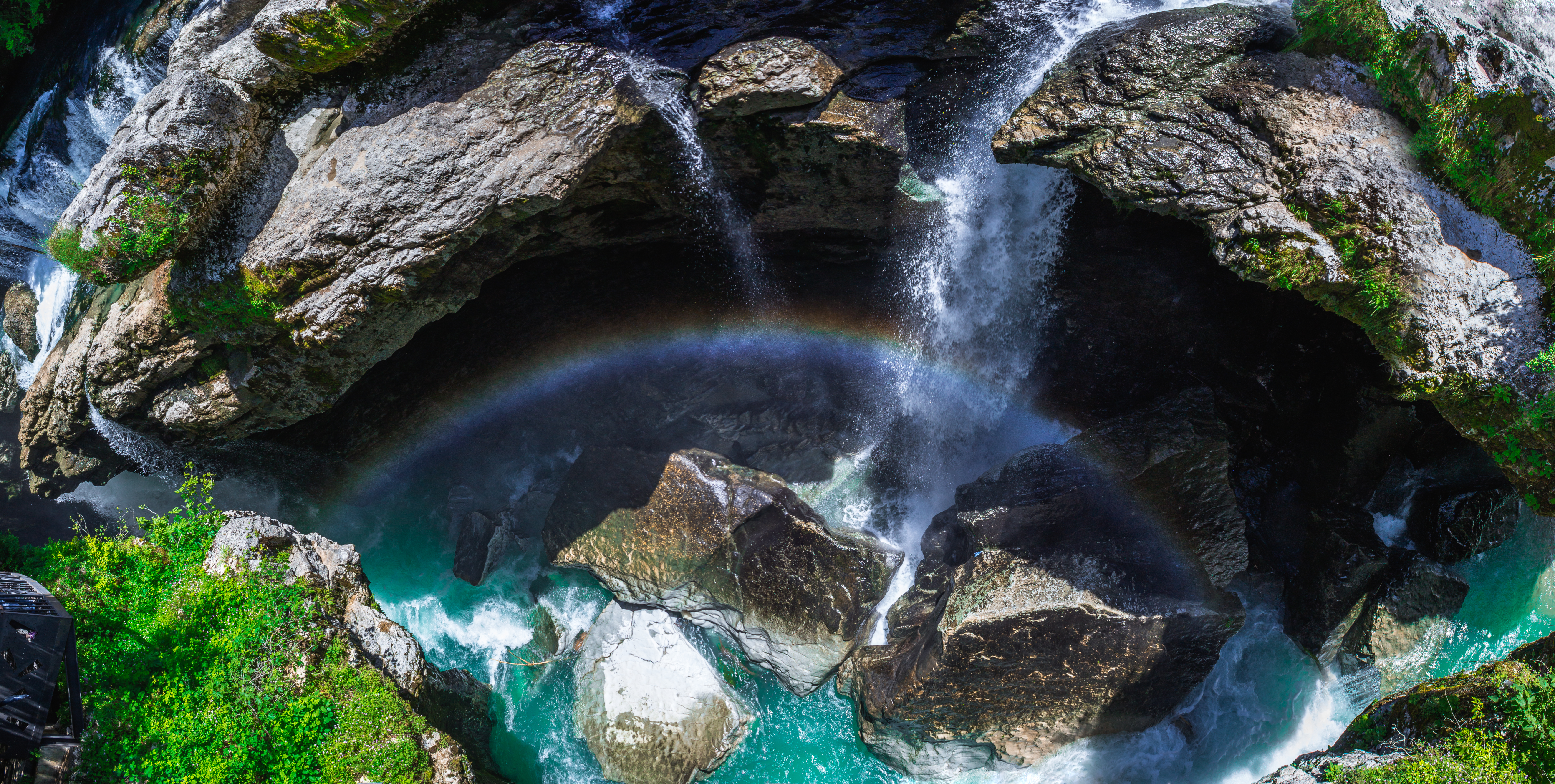 This photo is a little panorama I've created in Martvili Canyon in Samegrelo, which provides absolutely stunning views!